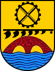 Coat of arms of Obergurig in Saxony, Germany. Hornjoserbsce: Wopon gmejny Hornjeje Hórki.